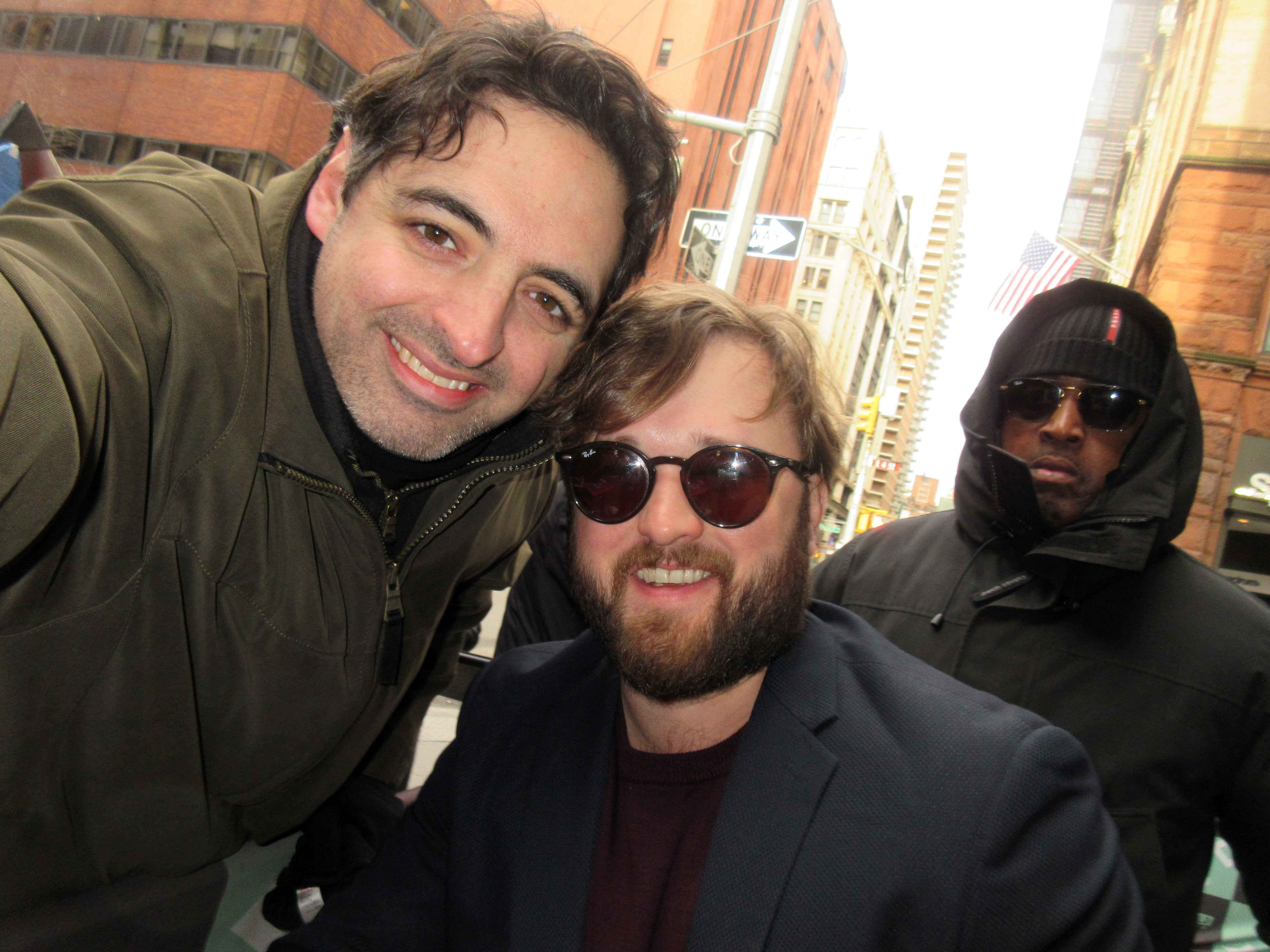 Star of A.I., The Sixth Sense, Pay It Forward, Second Hand Lions, and Extremely Wicked, Shockingly Evil and Vile. NYC Jan '19.